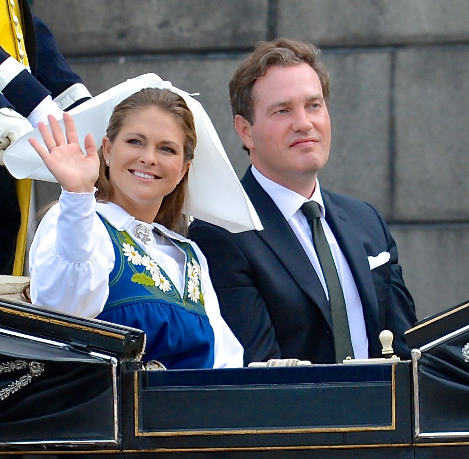 Princess Madeleine and Christopher O'Neill in Stockholm on Sweden's National Day 6 June 2014.